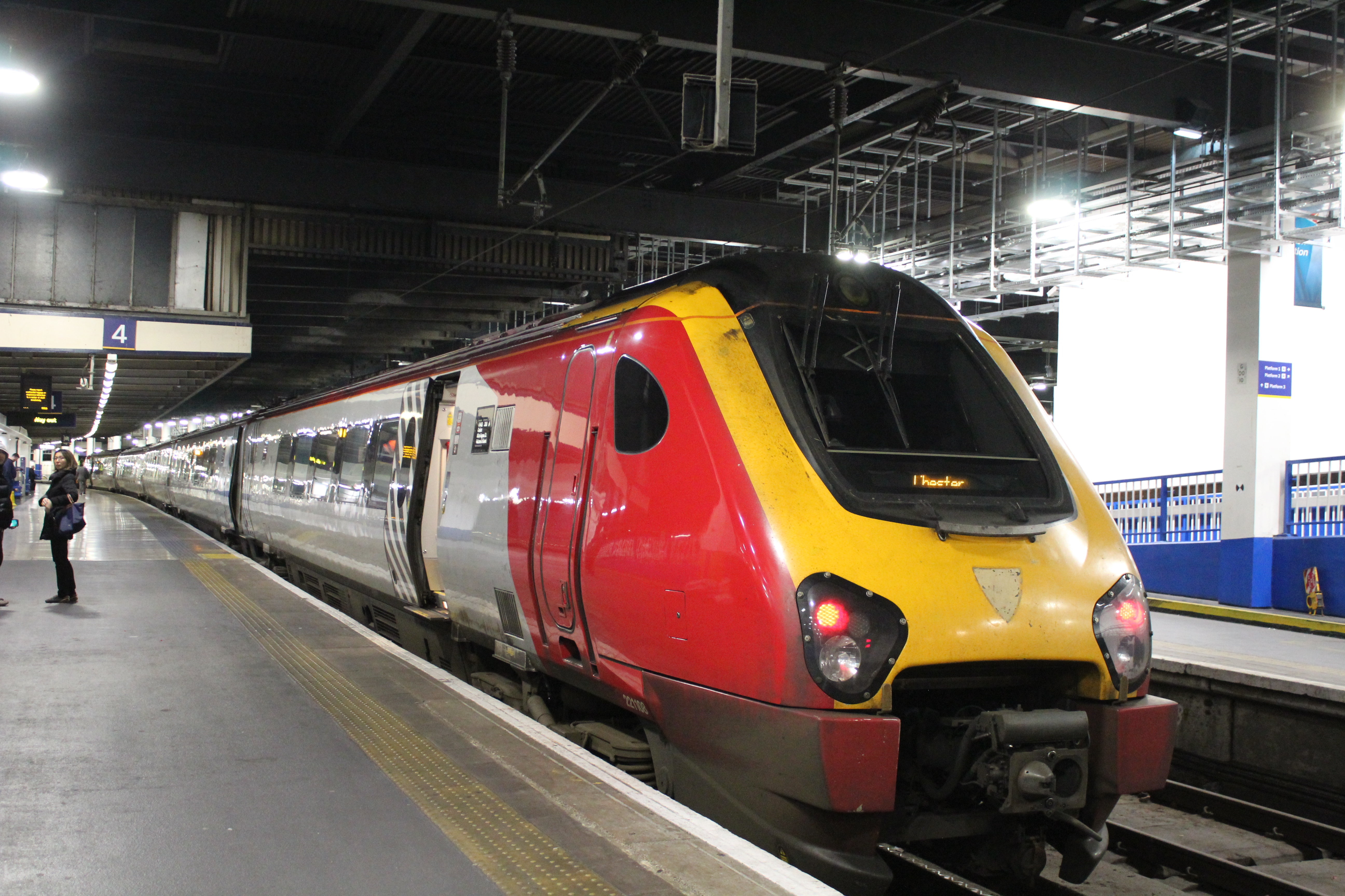 Avanti West Coast 221108 is seen at London Euston as it awaits the Chester service. It is still in the Virgin Trains colours, having been debranded.